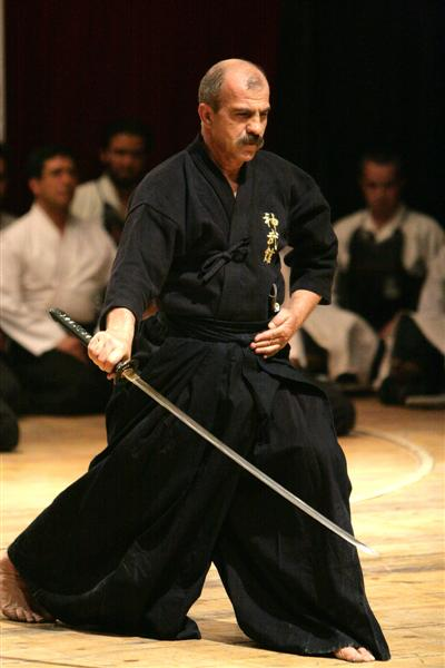 Shihan Soleiman Mehdizadeh performing an Iaido kata